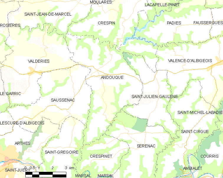 Map of French municipality Andouque